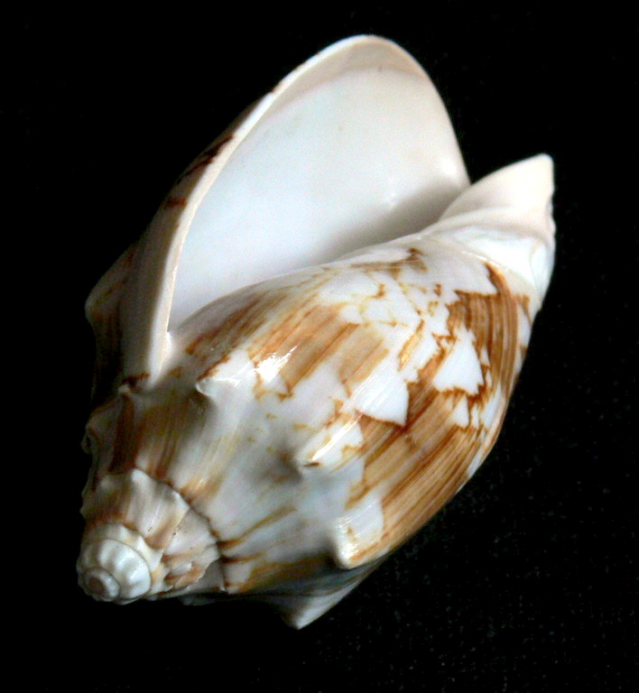 A shell of the sea snail species Cymbiola vespertilio, the bat volute. Photo taken by User:Haplochromis